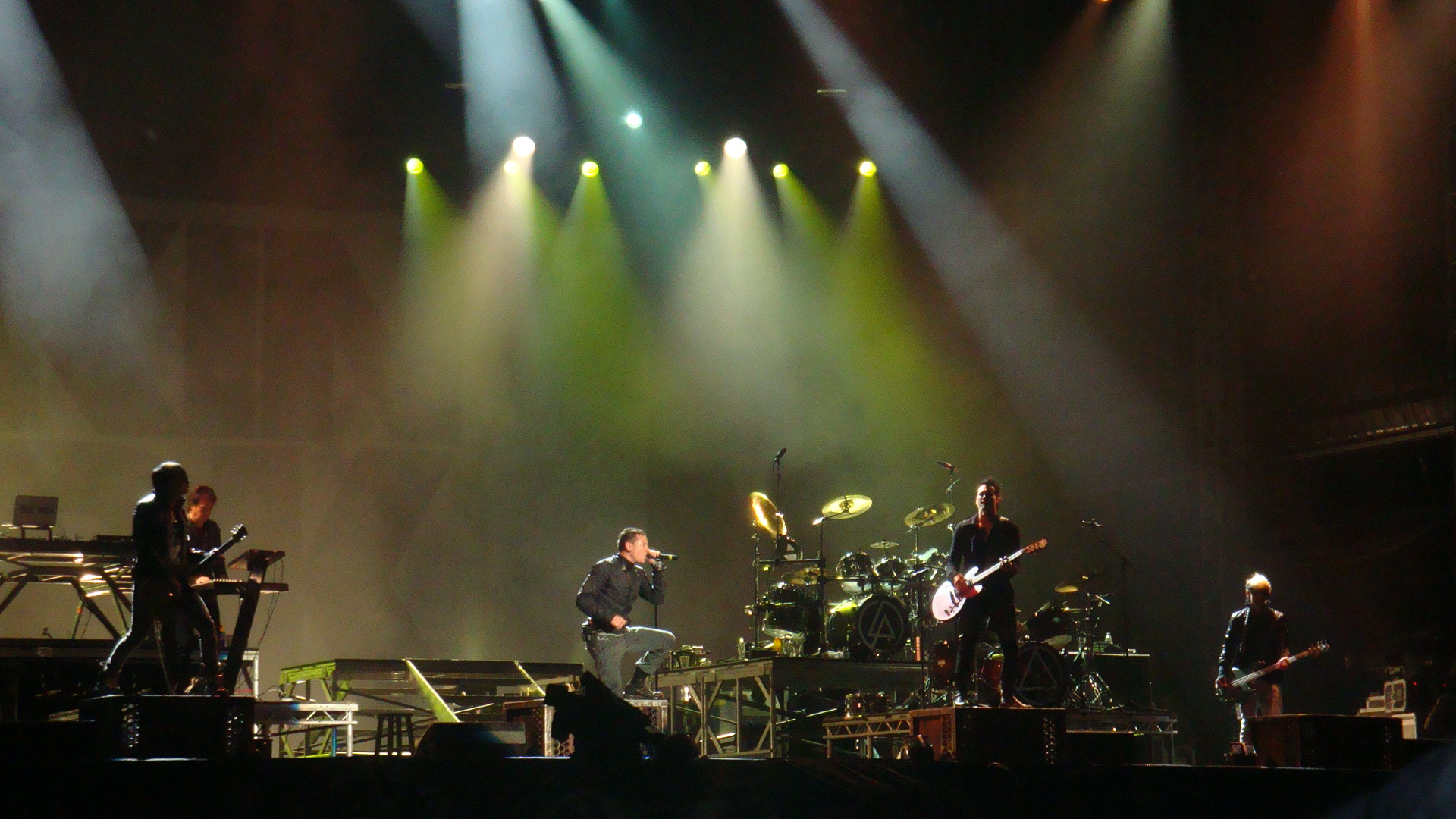 Dead By Sunrise performing a short set for the first time in the UK at the Sonisphere Festival. This set was played in the break of a Linkin Park show.